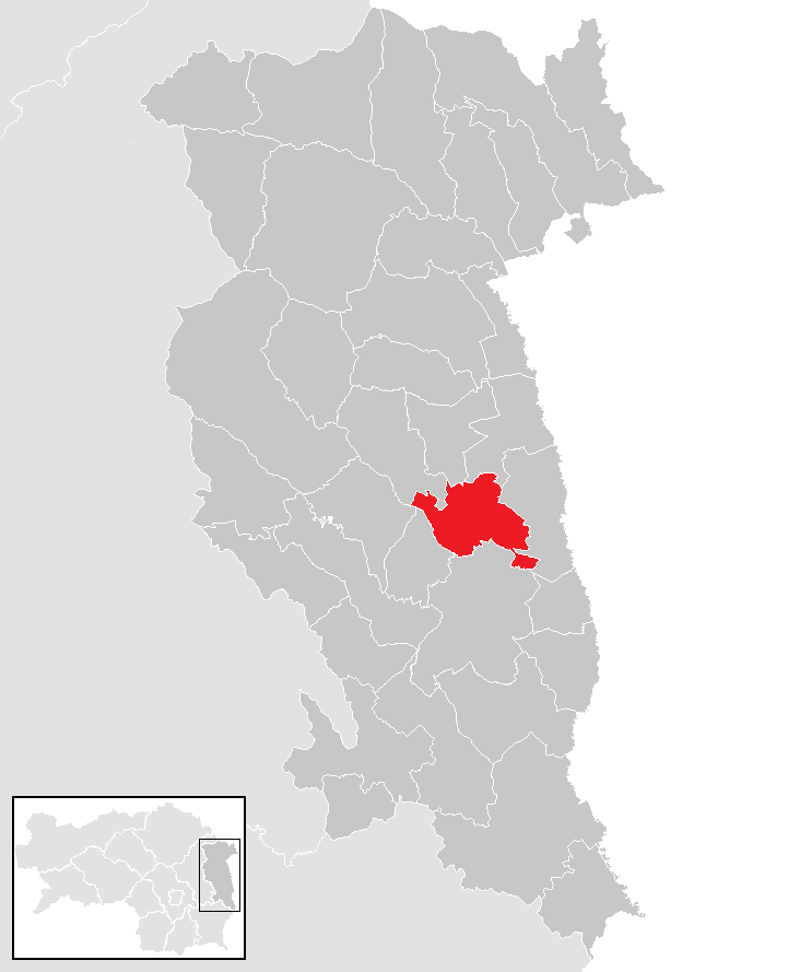 District Hartberg-Fürstenfeld, Styria